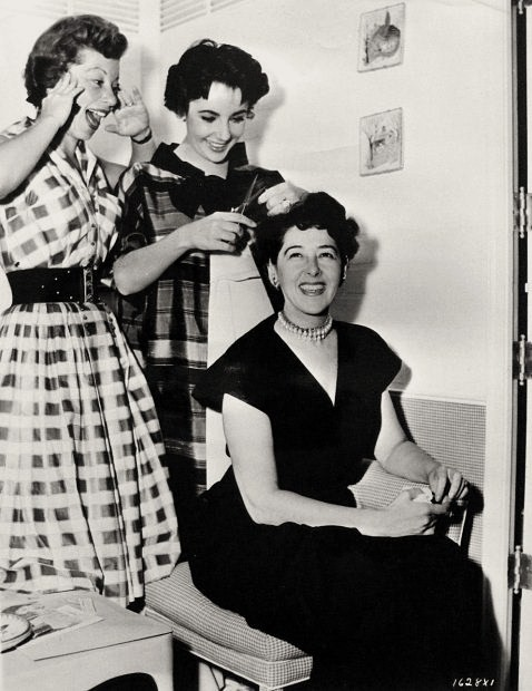 L. to R. : Annabella Levy (hairdresser), Elizabeth Taylor, and Helen Rose (costume designer) on the set of Rhapsody (1954) - publicity still